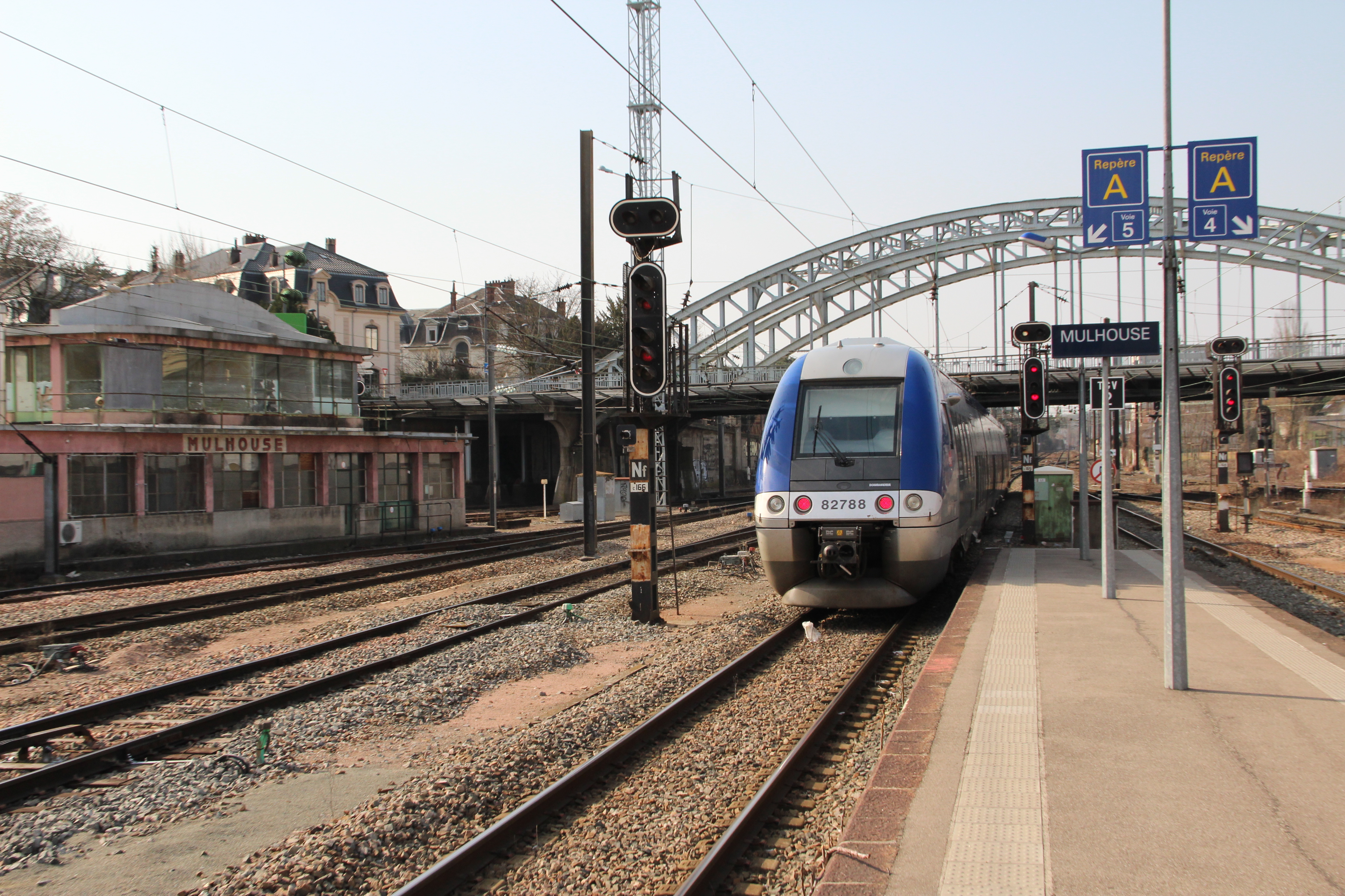 Hybrid multi-system SNCF Class B 82500 multiple unit number 82788 leaving Mulhouse-Ville train station from track 5. On the left, the signal box building near the station. In background the Pont d'Altkirch bridge.